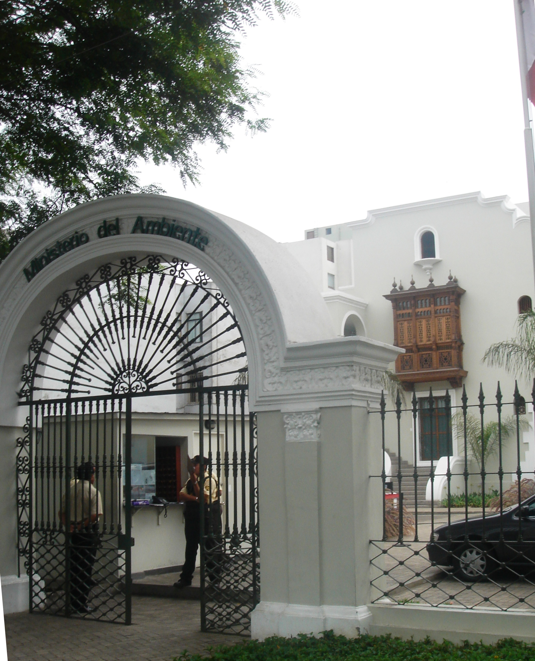 Peruvian Ministry of Environment in Lima, Peru.